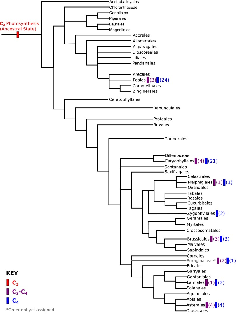 A phylogeny of angiosperm orders is shown, based on the classification by the Angiosperm Phylogeny Group. The phylogenetic distribution of known two-celled C4 photosynthetic lineages are annotated, together with the distribution of C3-C4 lineages that we used in this study. The numbers of independent C3-C4, or C4 lineages present in each order are shown in parentheses.